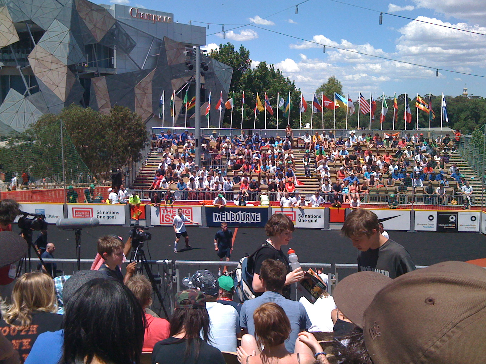 Homeless World Cup 2008 in Melbourne, Australia